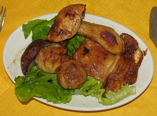 Fried Porcini Mushrooms